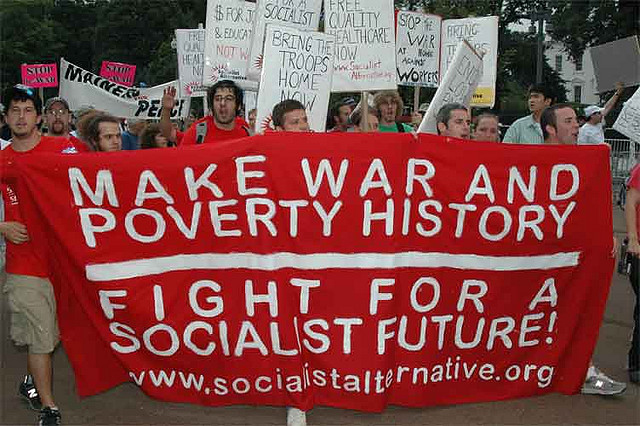 a photograph of Socialist Alternative members at an antiwar march in 2007.